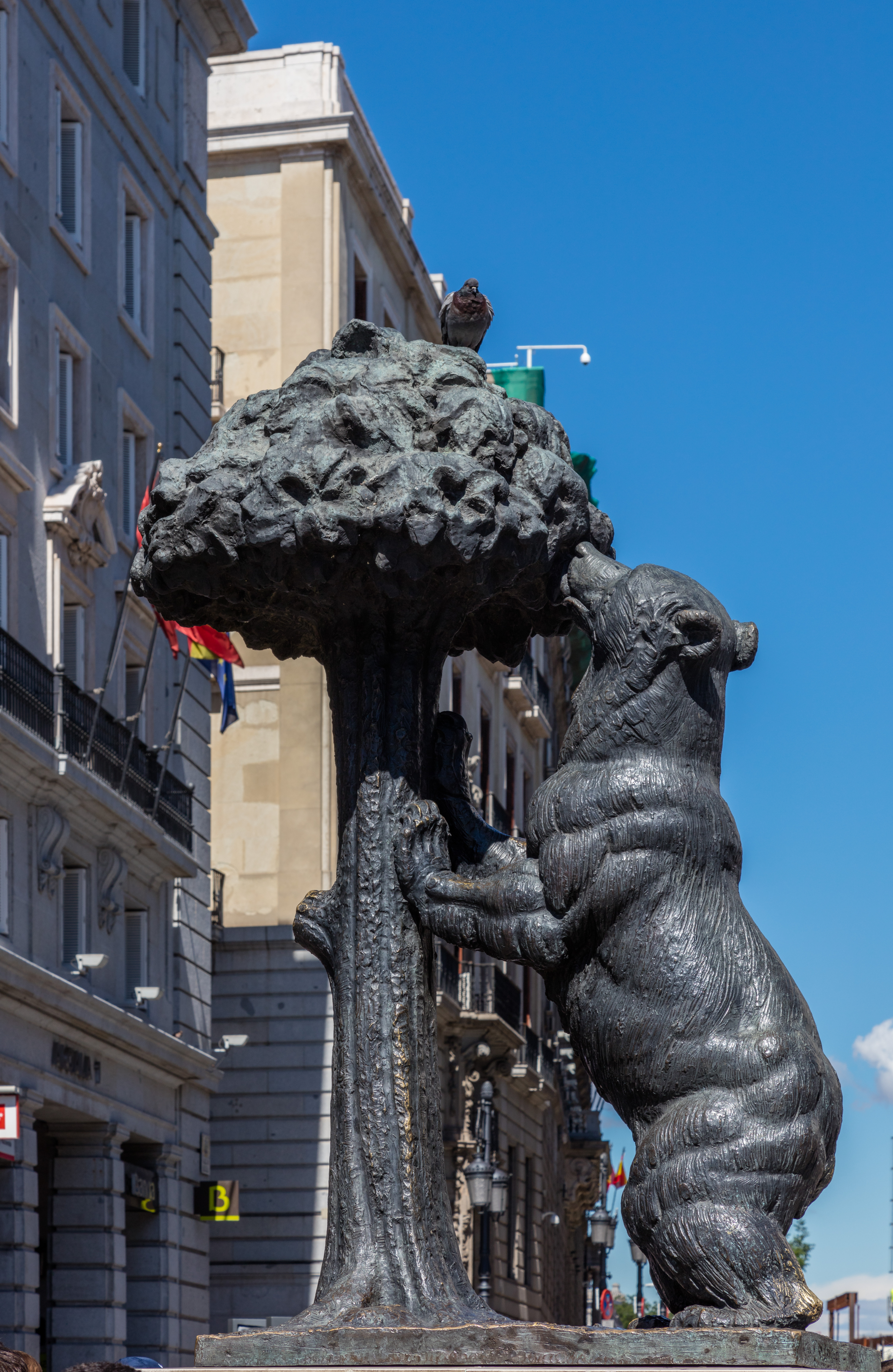 El Oso y el Madroño, Sol Square, Madrid, Spain